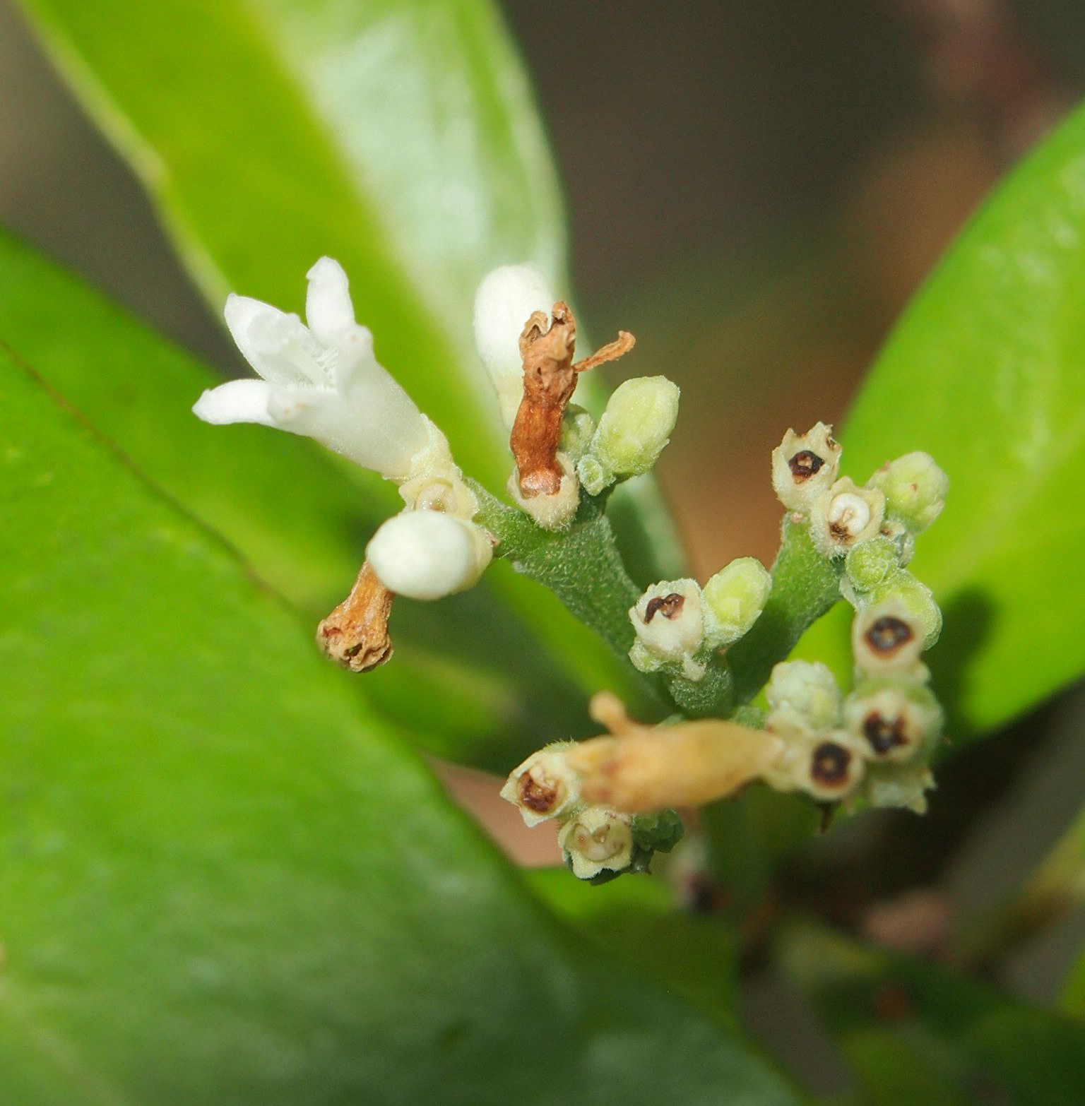 Psychotria daphnoides flower